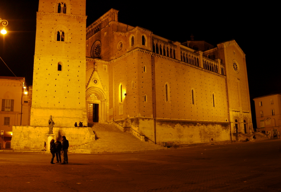 The Cathedral of St. Justin of Chieti, in Abruzzo